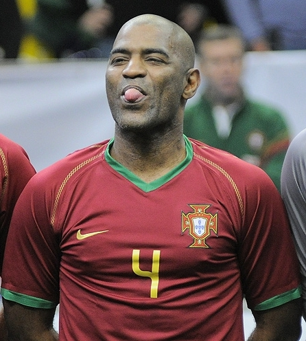 Oceano da Cruz at 2011 Legends Cup